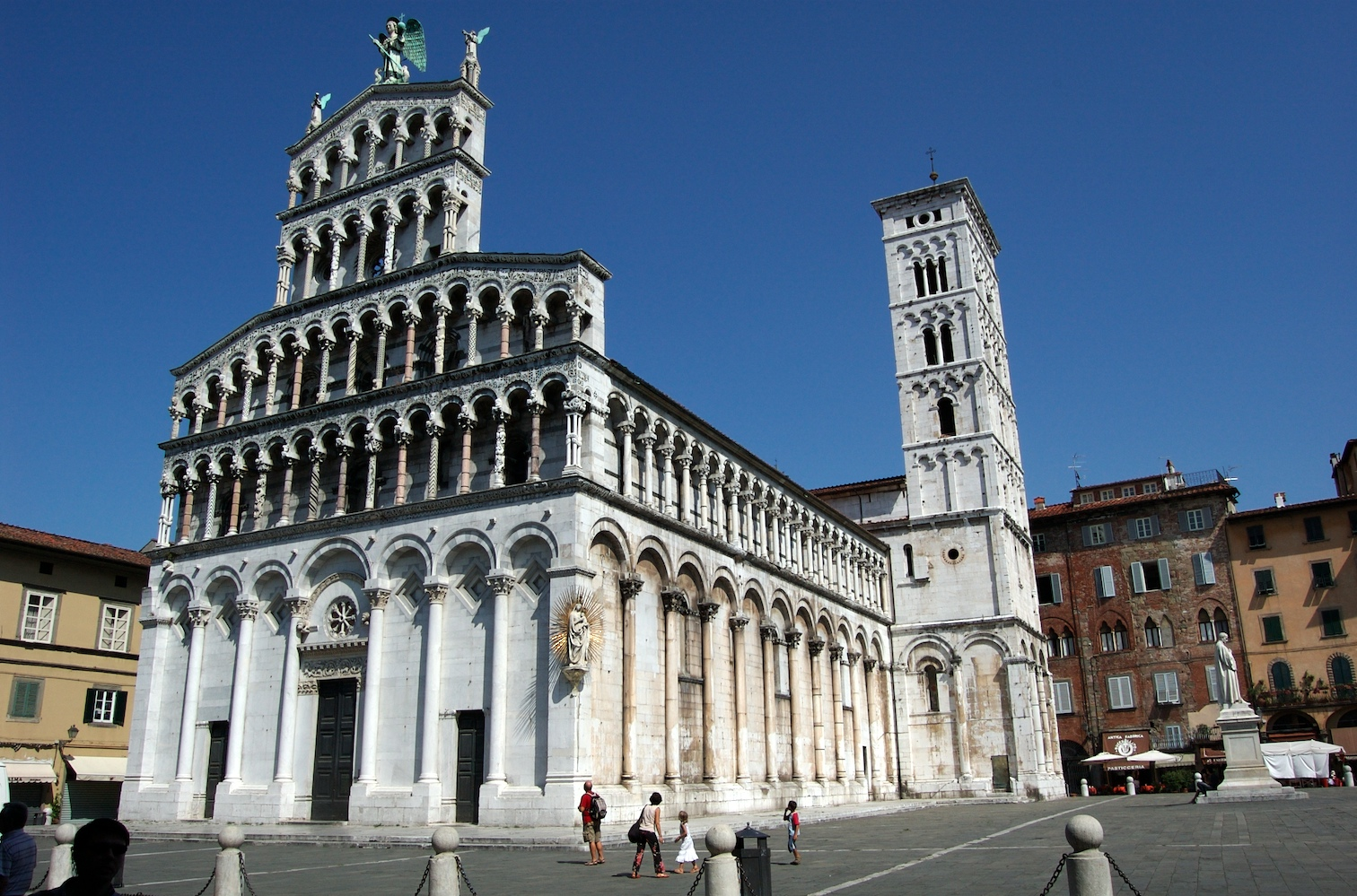 Church San Michele in Foro Lucca